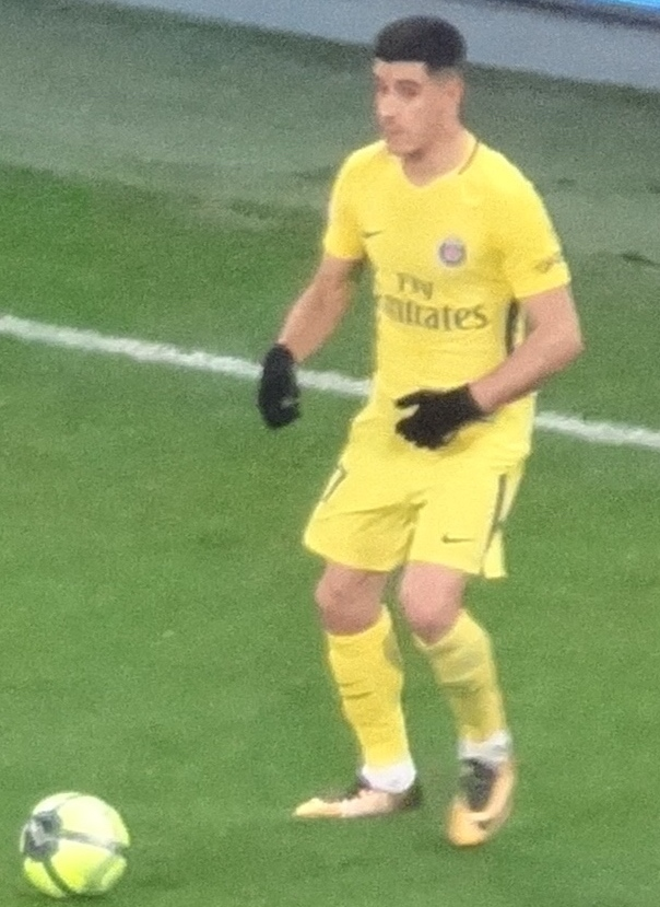 Yuri Berchiche (PSG)